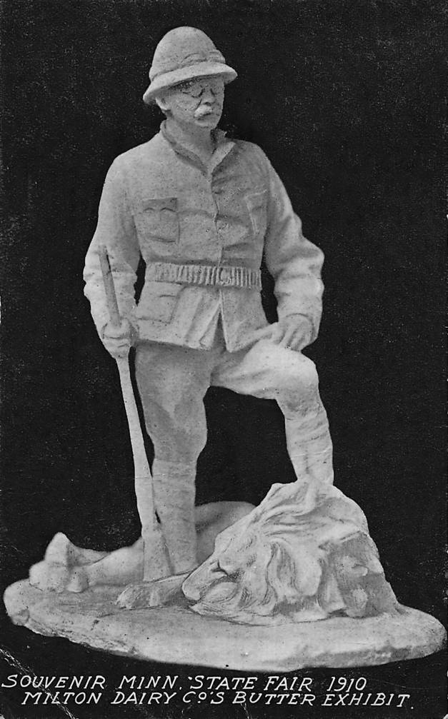 John K. Daniels’s butter sculpture of Teddy Roosevelt, Minnesota State Fair, 1910. Sponsored by Milton Dairy.